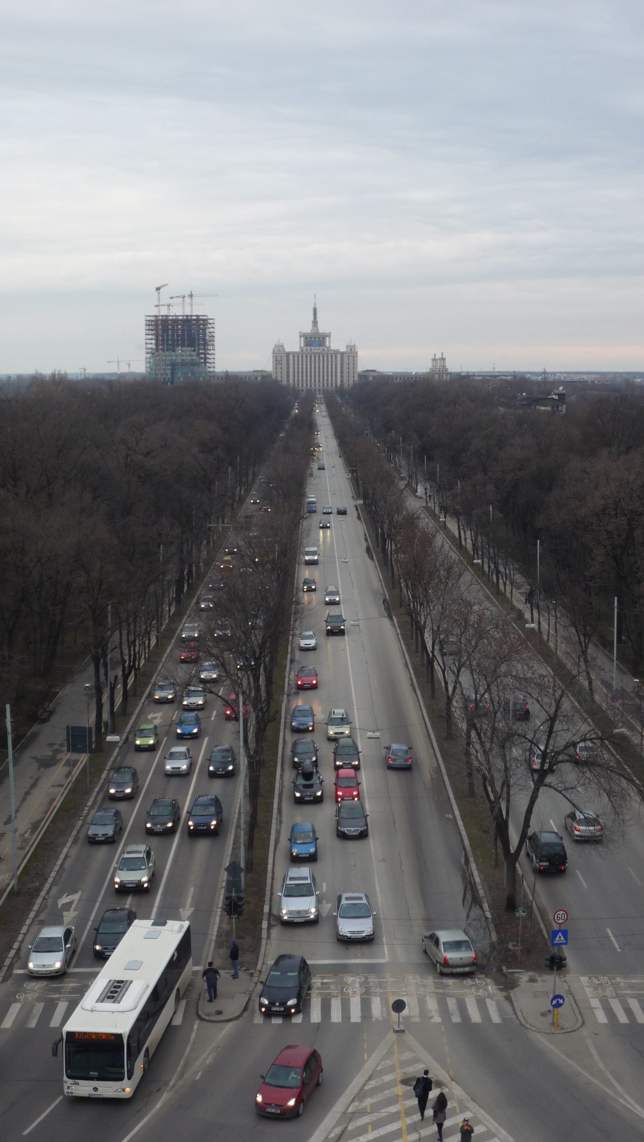 Kiseleff Road and Casa Presei Libere (seen from Arcul de Triumf)